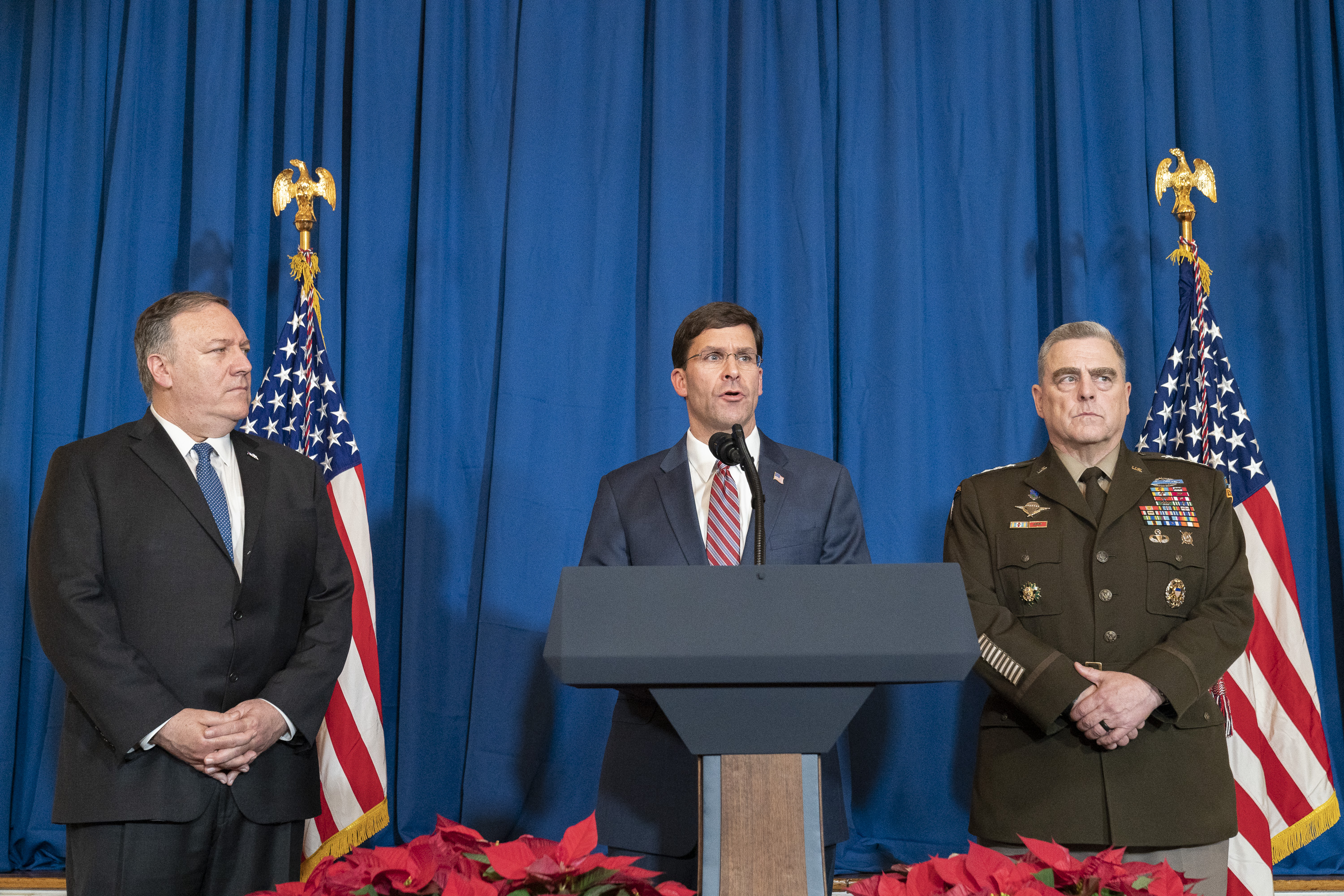 Secretary of Defense Mark Esper is joined by Secretary of State Mike Pompeo, left, and Chairman of the Joint Chiefs of Staff Gen. Mark A. Milley, as he addresses reporters Sunday, Dec. 29, 2019, at Mar-a-Lago in Palm Beach, Fla., about the U.S. military defensive strikes against Iranian supported militias in Iraq and Syria. (Official White House Photo by Tia Dufour)